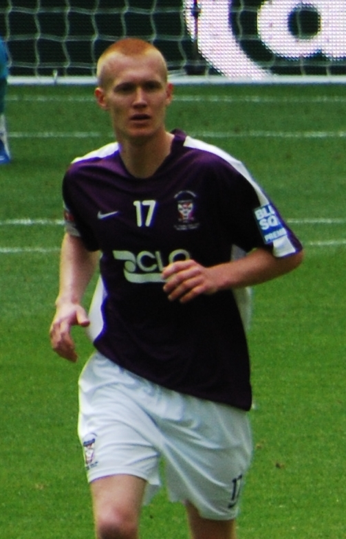 Levi Mackin playing for York City against Stevenage Borough at Wembley Stadium, London on 9 May 2009